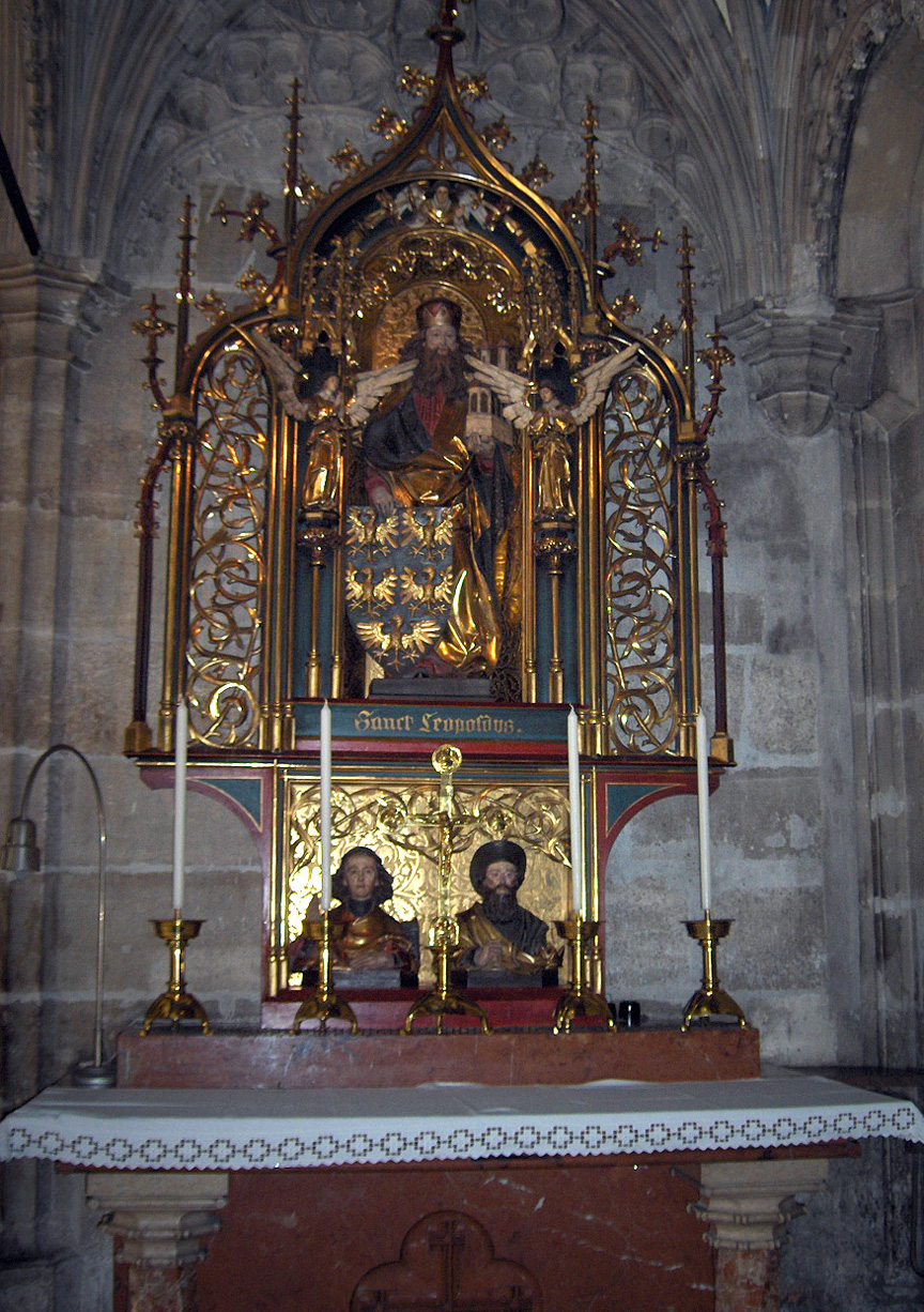 Saint Leopold side altar in the southern aisle of the Stephansdom in Vienna, Austria